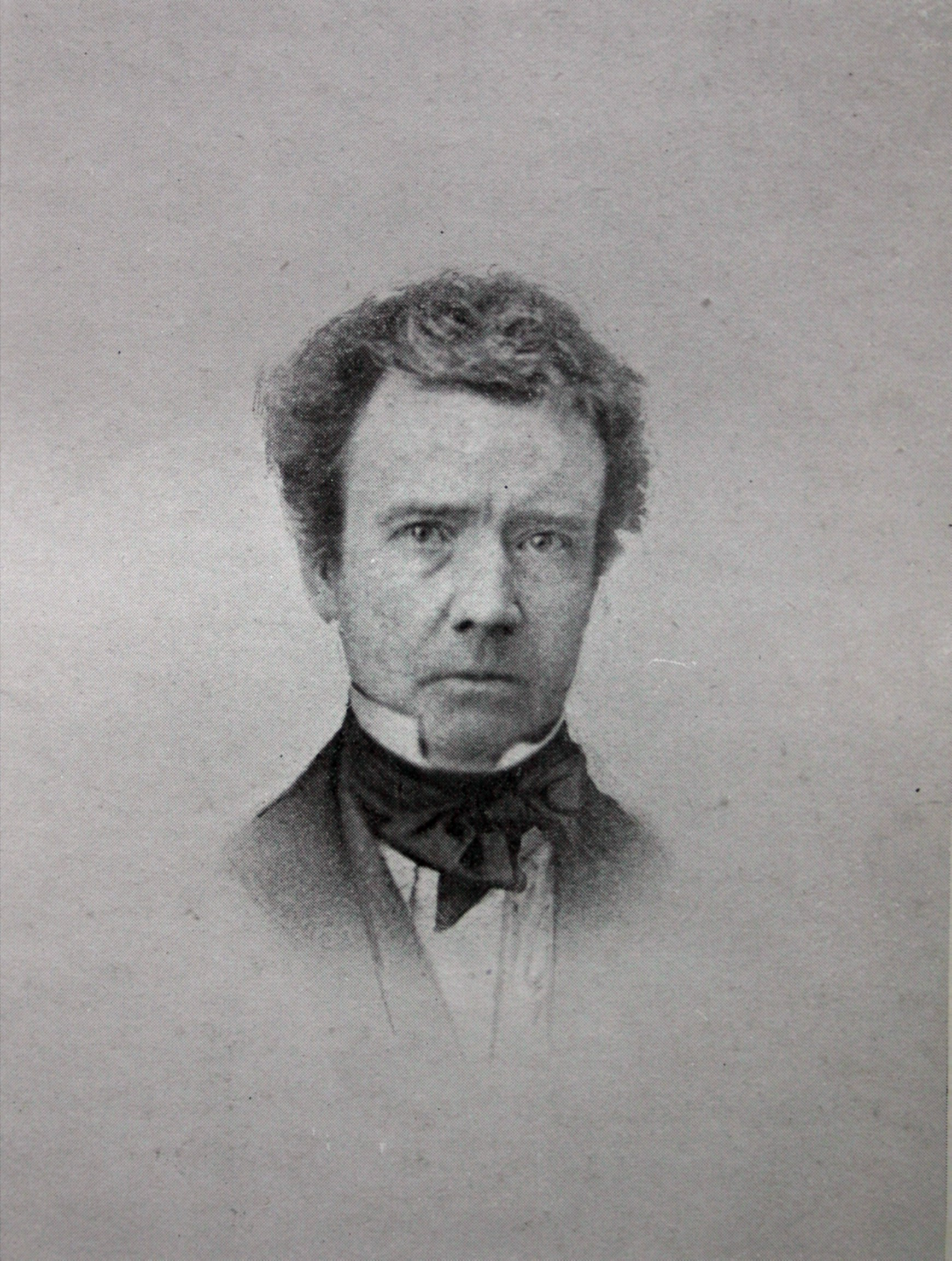 Portrait of Robert Jameson (1805–1868), Leander Starr Jameson's father, from "The Life of Jameson" by Ian Colvin, Edward Arnold & Co., 1922